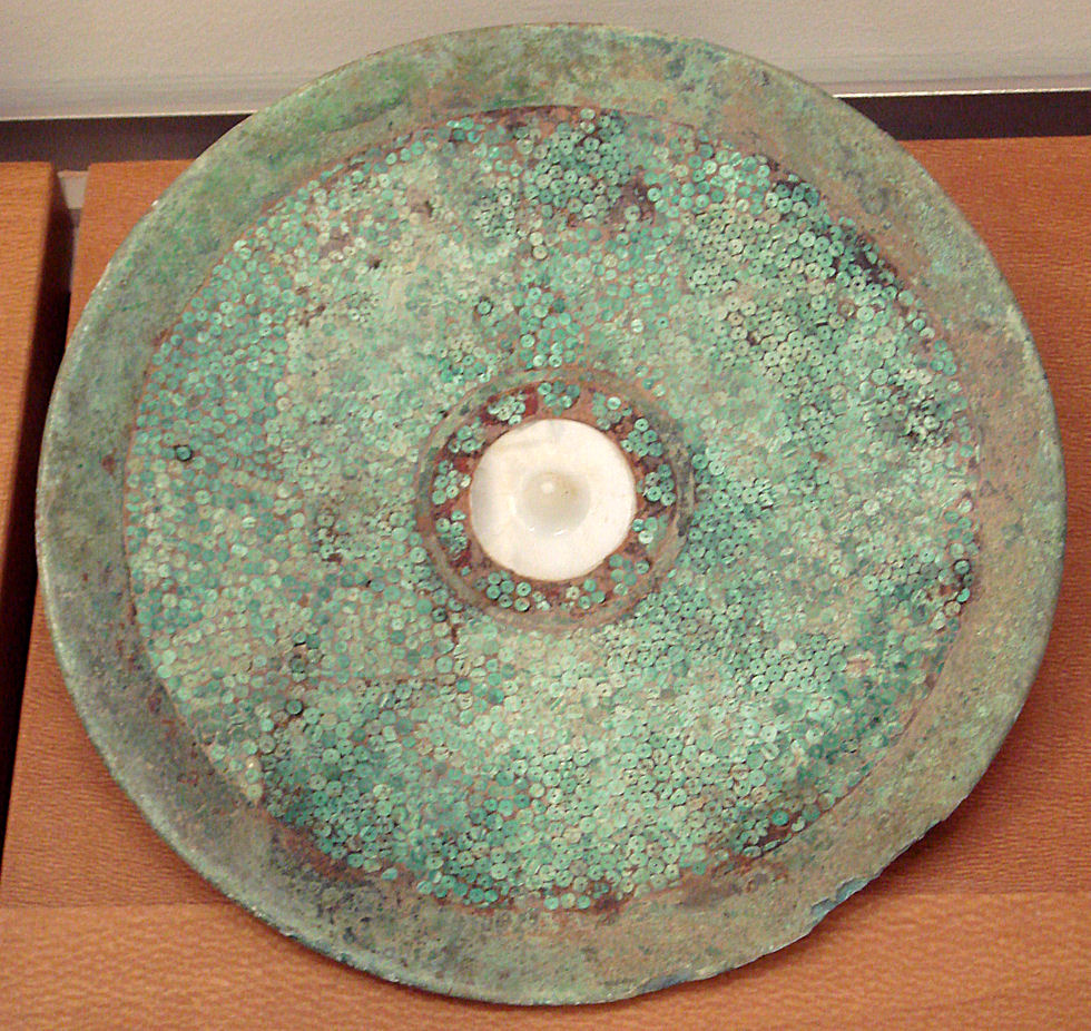 Belt ornament of the Dian Kingdom, 2nd century BCE.